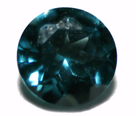 round cut green spinel gemstone.